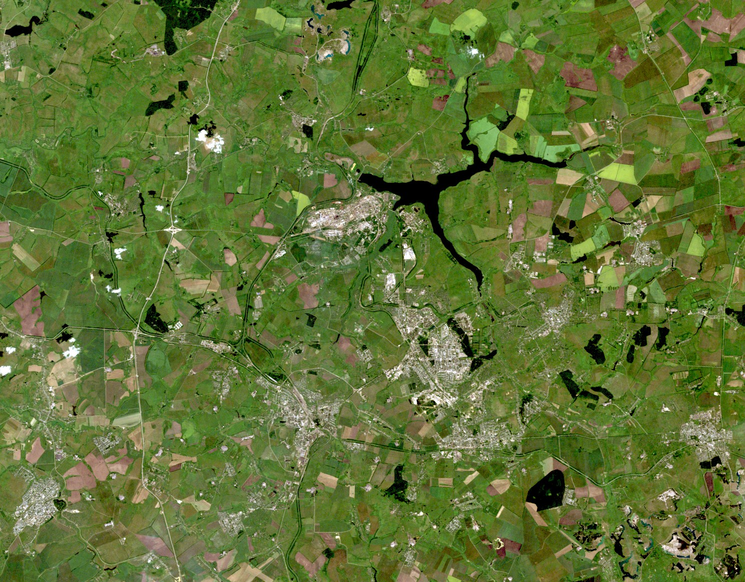 Novomoskovsk urban agglomeration, Russia, Tula oblast, LandSat-7 satellite image, near natural colors, spatial resolution 30 m